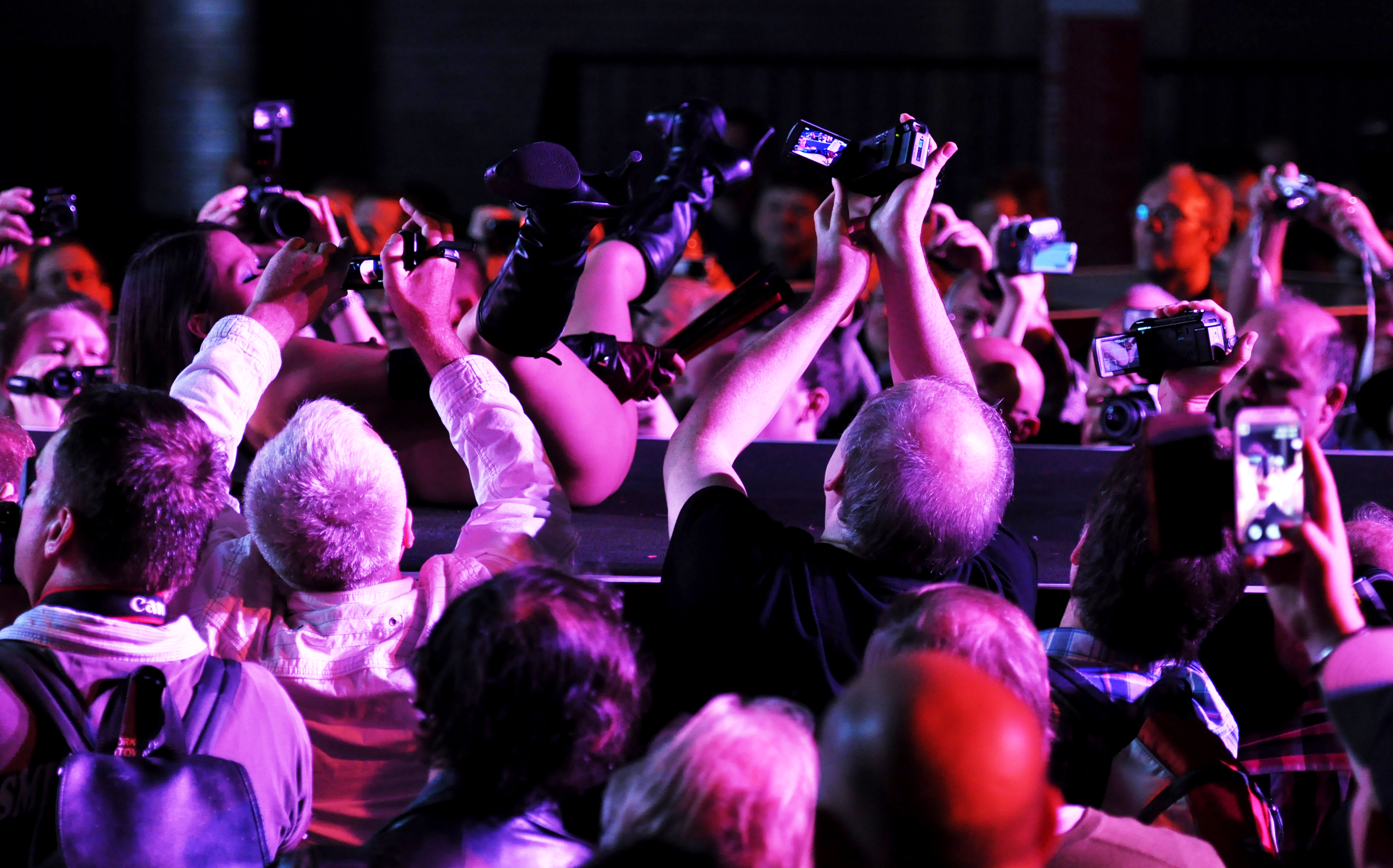 At the Venus 2014, Berlin